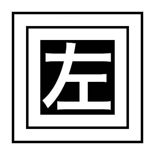 Japanese family crest "Mimasu no naka ni Hidari", three volume measuring boxes (masu) stacked, carrying a kanji "左" (hidari, left) in the center